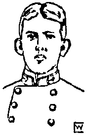 An illustration of Governor of American Samoa Gatewood Lincoln, then a recent graduate of the US Naval Academy